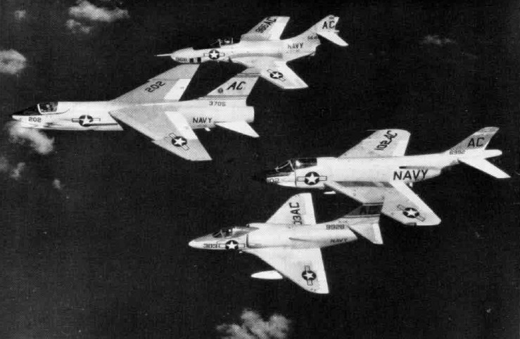 Four planes of U.S. Navy Carrier Air Group Three (CVG-3) in 1958: A Vought F8U-1 Crusader of fighter squadron VF-32 Swordsmen (left); a Grumman F9F-8P Cougar of reconnaissance squadron VFP-62 Det.43 Fighting Photos (above); a Douglas A4D-1 Skyhawk of attack squadron VA-34 Blue Blasters (below); and a McDonnell F3H-2N Demon of VF-31 Tomcatters (right). CVG-3 was deployed aboard the aircraft carrier USS Saratoga (CVA-60) to the Mediterranean Sea from 1 February to 1 October 1958. CVG-3 (after 1963 CVW-3) was stationed aboard the Saratoga from 1958 to 1980.